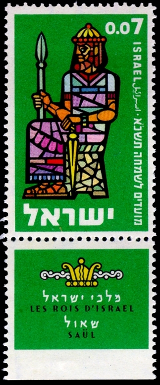 Joyous Festivals 5721 stamp - 0.07 Israeli lira - Kings of Israel: Saul.